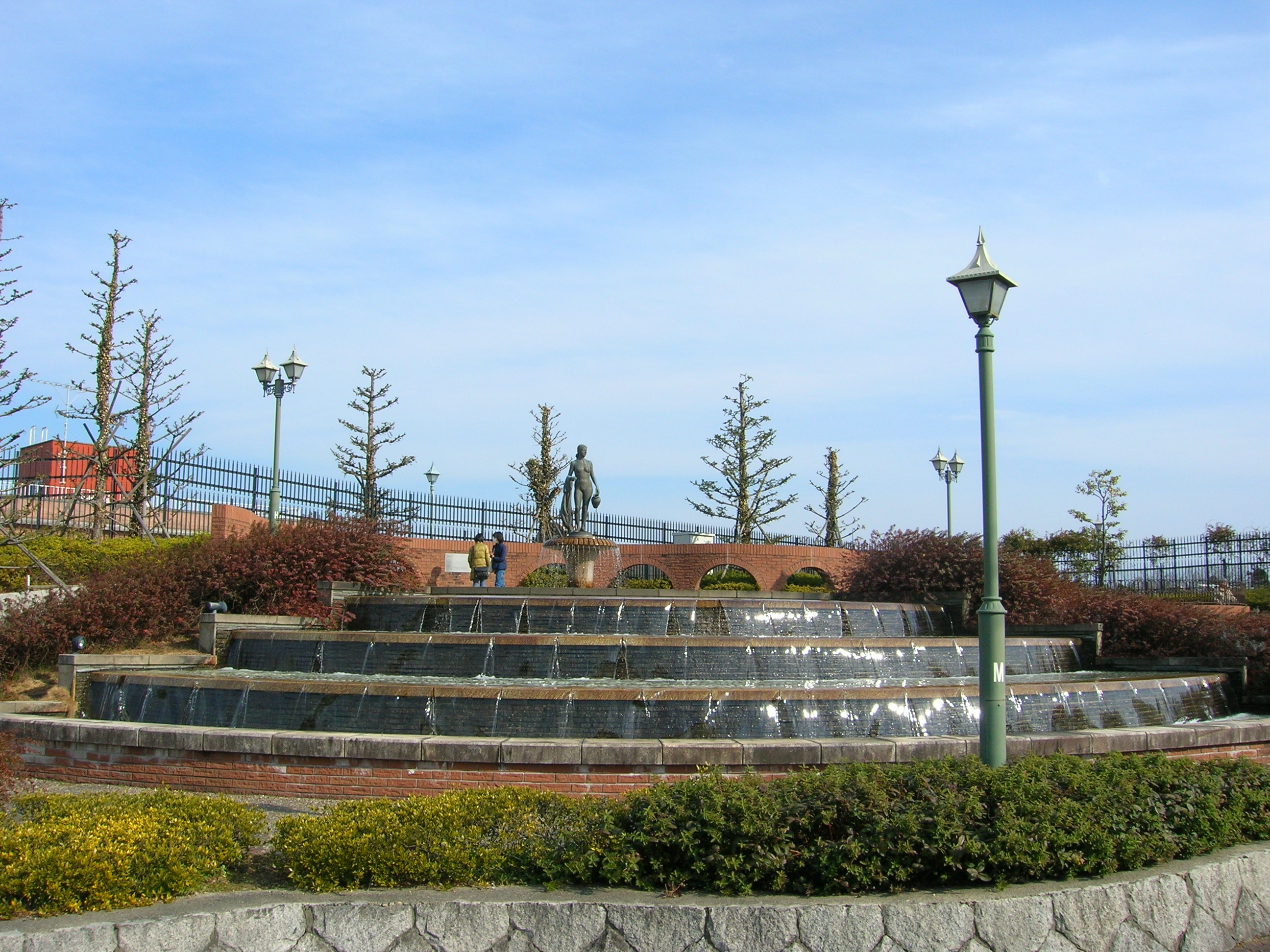 Water park "Mizu no oka". Loc: Chikusa-ku, Nagoya city, Aichi Prefecture, Japan. 鍋屋上野浄水場の南西角に作られた水道公園「水の丘」。 撮影場所 愛知県名古屋市千種区